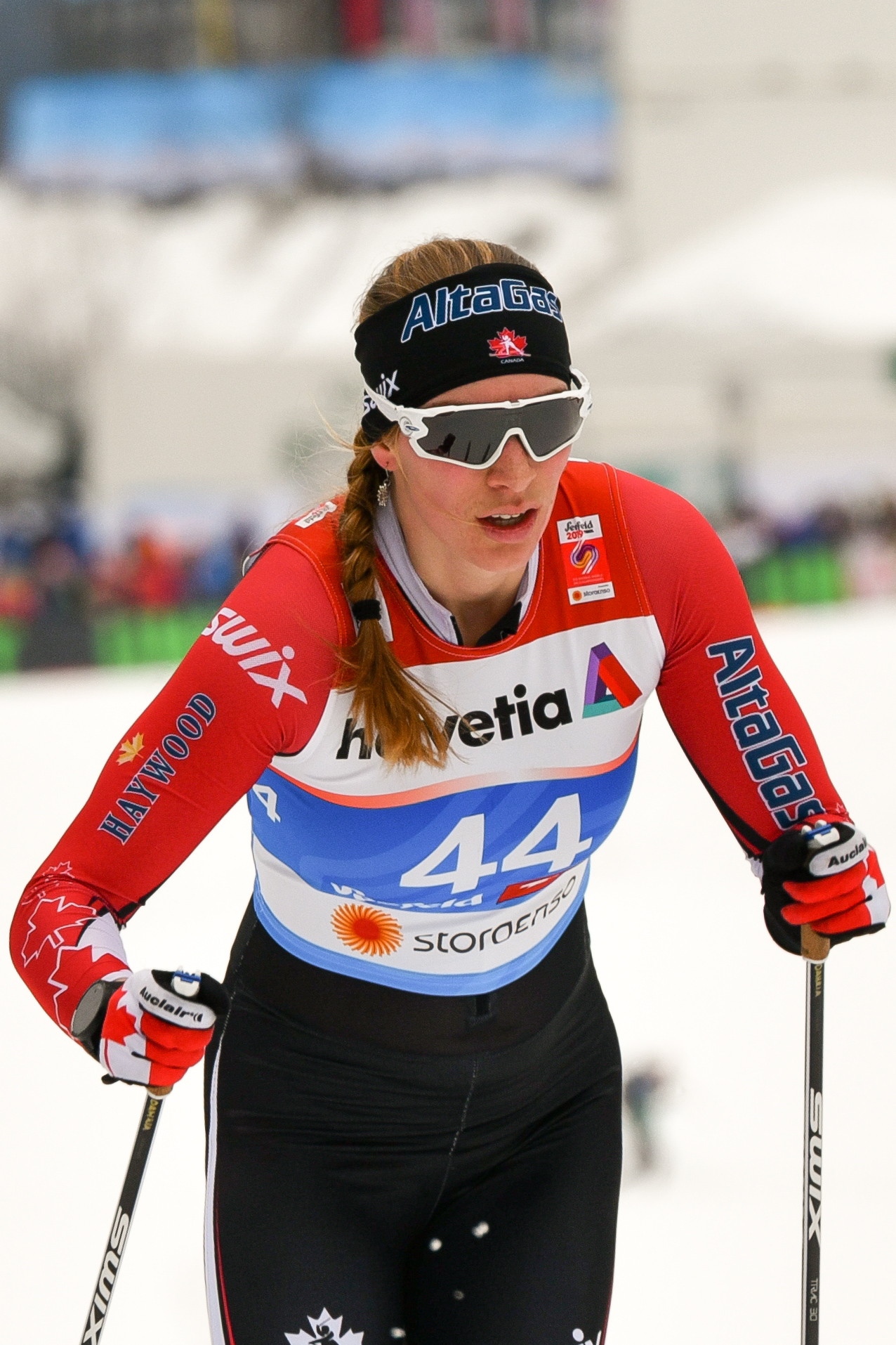 FIS Nordic World Ski Championships Seefeld 2019 - Ladies 30km Mass Start Free. Picture shows Dahria Beatty (CAN).